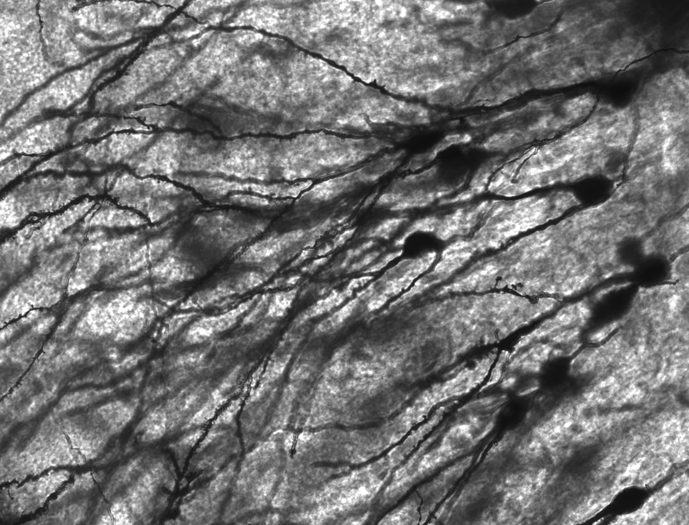 Image of Golgi stained neurons in the dentate gyrus of an epilepsy patient. 40 times magnification.